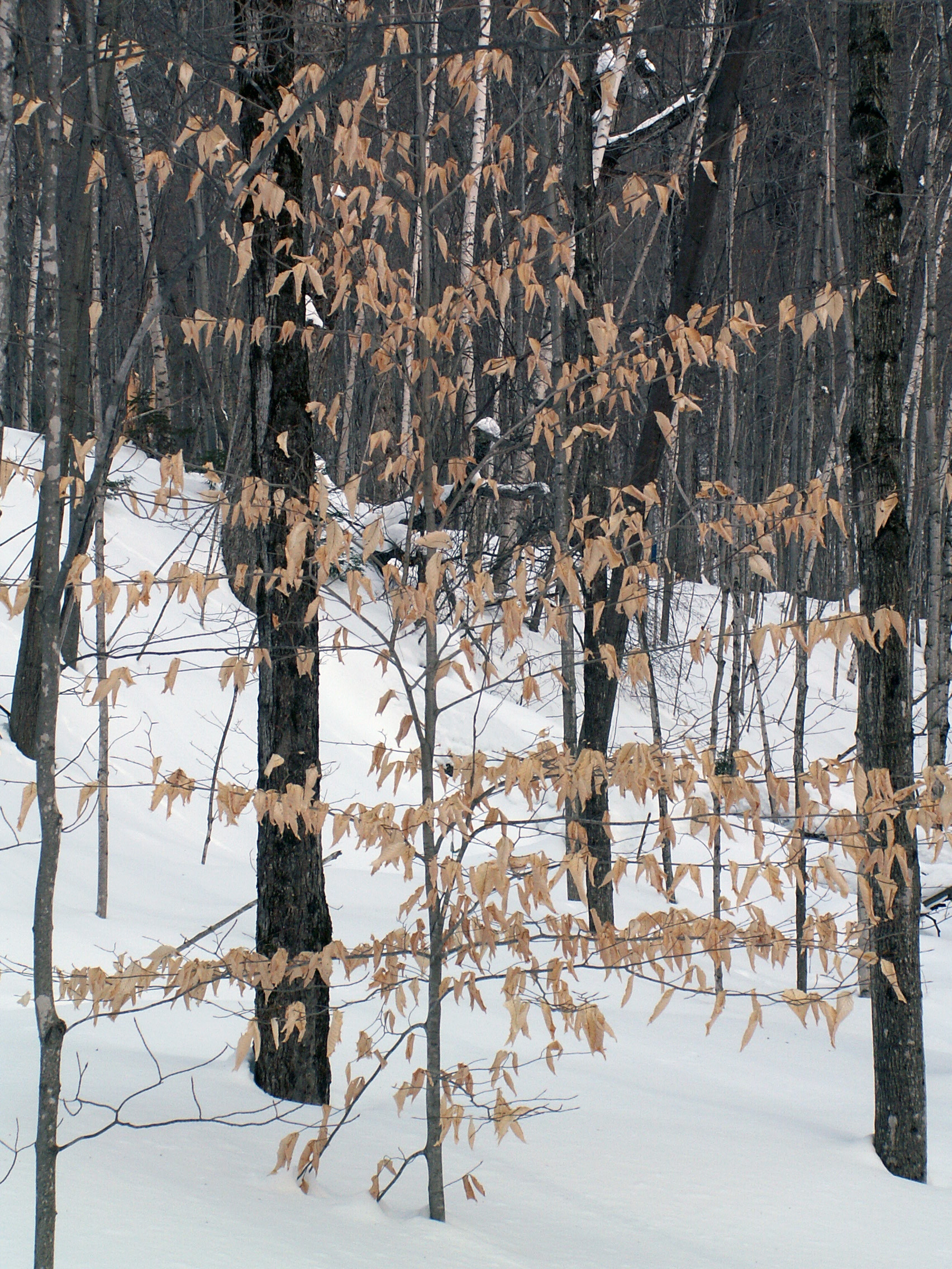 The American beech (Fagus grandifolia) sometimes keeps its leaves in winter. Cap Tourmente National Wildlife Area, Quebec, Canada.